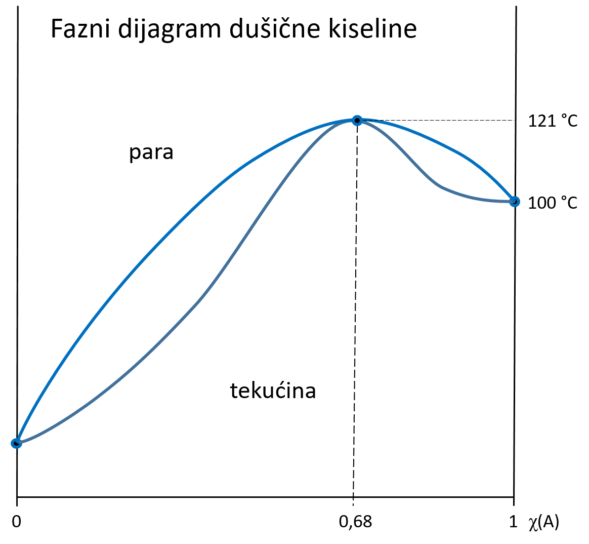 The phase diagram of nitric acid